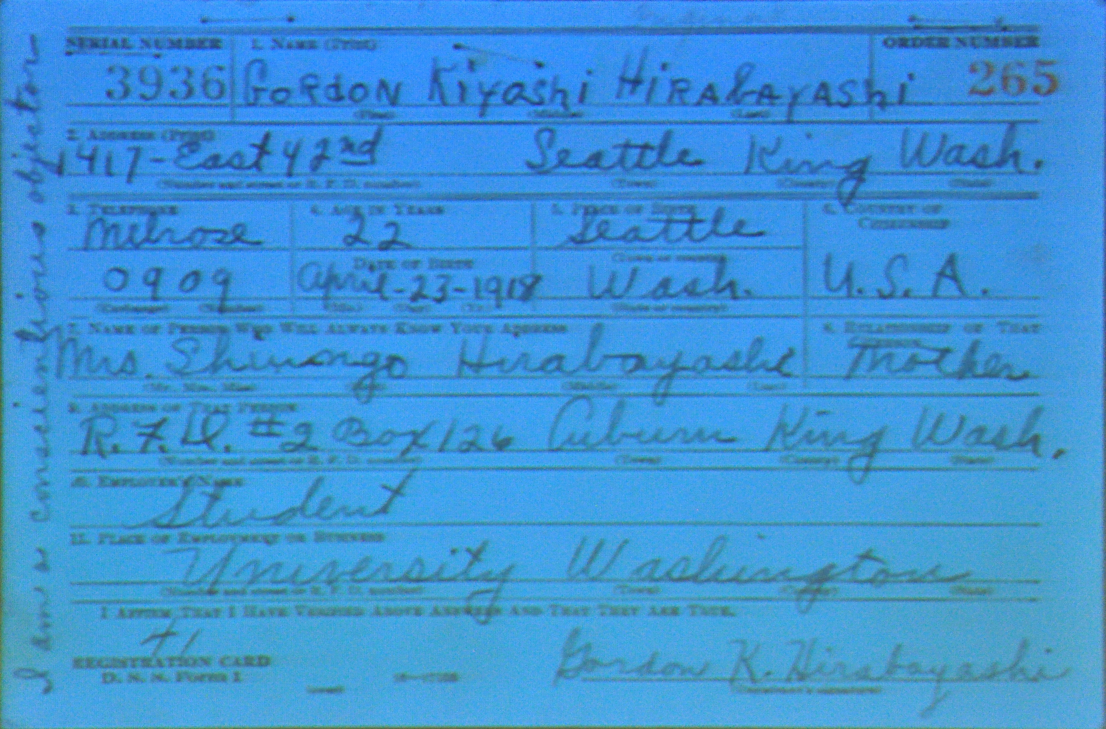 Gordon Hirabayashi's draft registration card, shown at Courage in Action: the Life and Legacy of Gordon K. Hirabayashi, a symposium on the occasion of the presentation of Gordon K. Hirabayashi's Medal of Freedom to the the University of Washington Library Special Collections, which holds the Gordon Hirabayshi Papers, February 22, 2014. Note that this is a distinct document from the one depicted at File:Copy of Gordon Hirabayashi's draft registration card.jpg